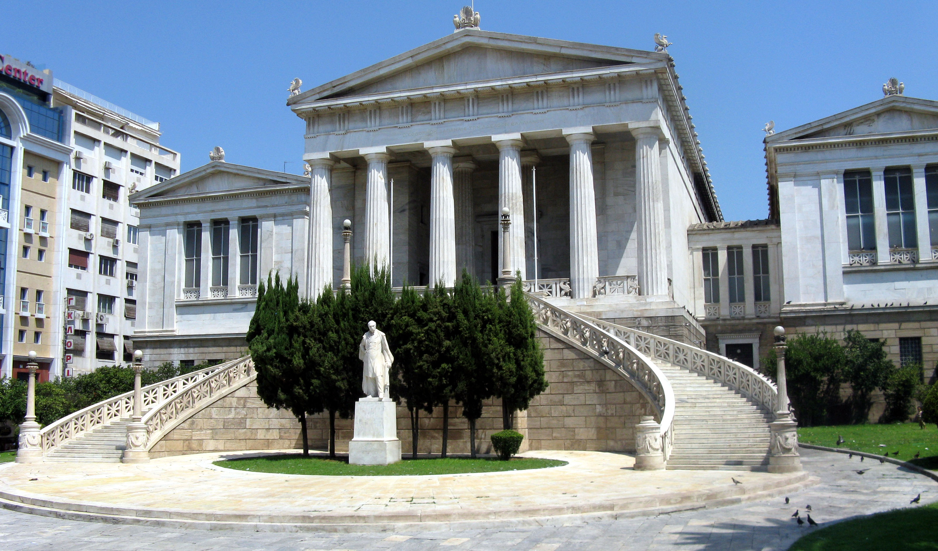 National Library of Greece in Athens